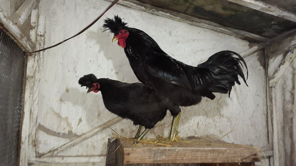 Kosovo Crower rooster and hen.